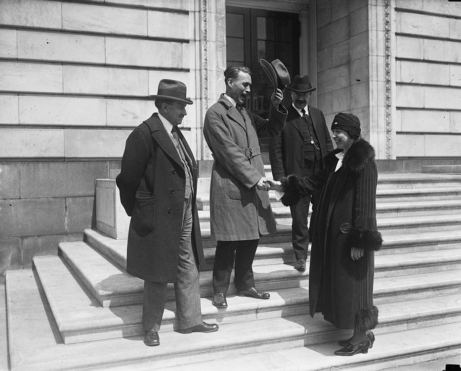 Title: The progressive group in Congress from Minn. greet Myrtle Cain, Woman Farm Labor Rep. in the Minn. Legislature, upon her arrival in Wash. She brought a mandate from the Minn. progressives that they support the equal rights amendment, lft. to rt.: Rep. Knud Wefald, Sen. Henrick Shipstead, Sen. Magnus Johnson and Miss Cain. Abstract/medium: 1 negative : glass ; 4 x 5 in. or smaller